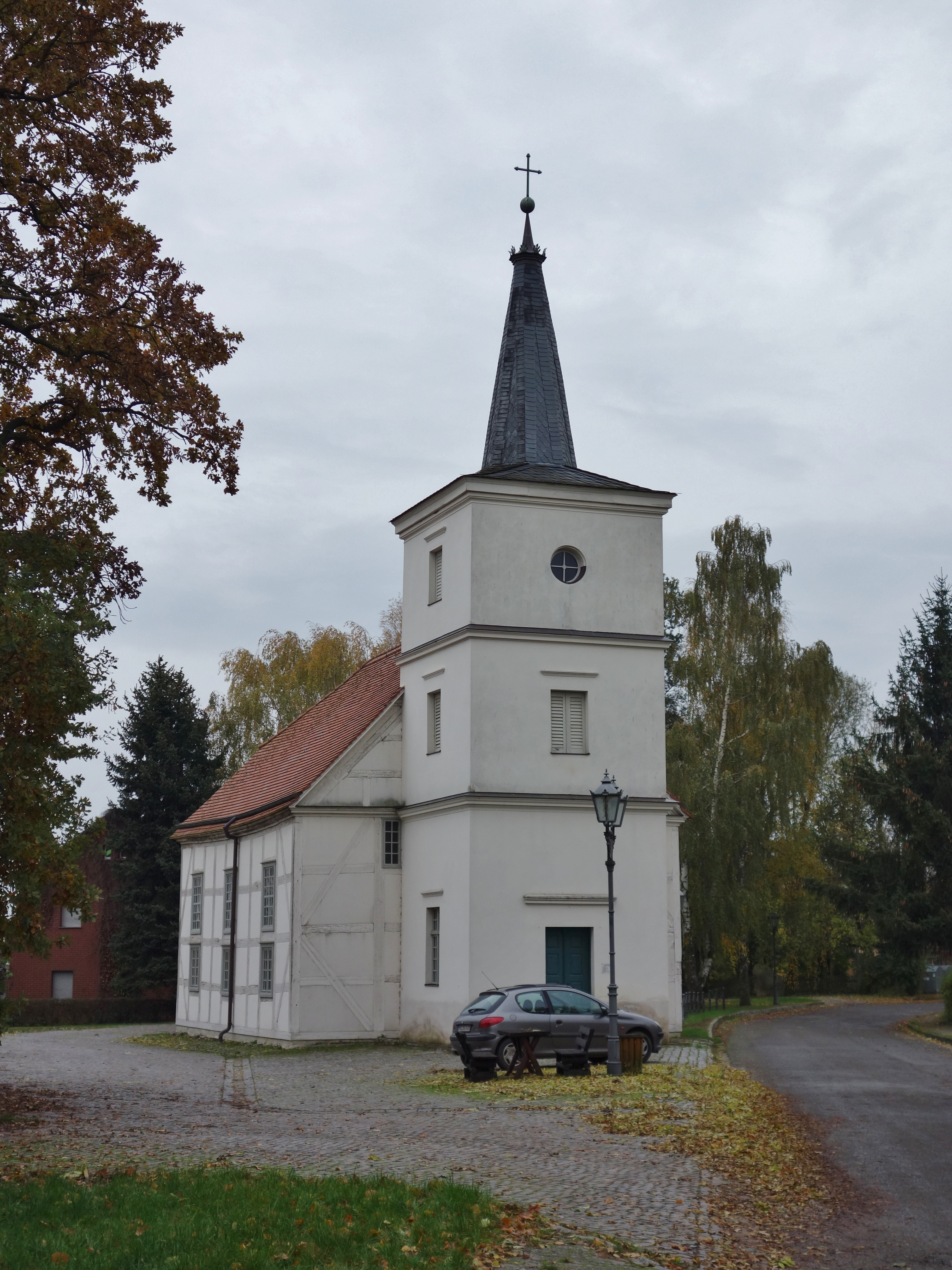 West-north-western view of church in Altwustrow, Oderaue municipality, Märkisch-Oderland district, Brandenburg state, Germany